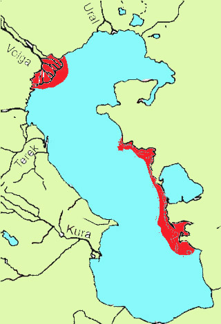 The rang of Small-spine tadpole-goby (Benthophilus mahmudbejovi)